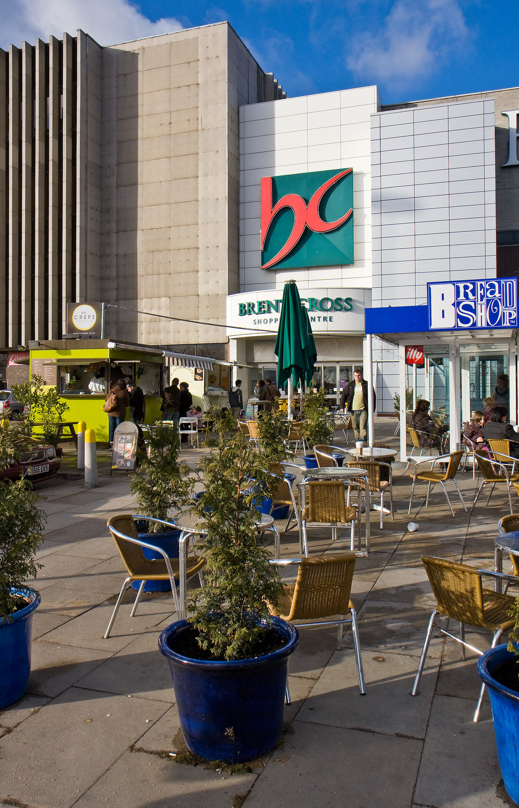 Brent Cross A pedestrian entrance at the John Lewis end of the shopping centre. Several small pavement food vendors and a cafe have been set up here and probably do quite a good trade in the summer.